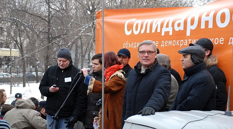 Russian politicians Mikhail Kasyanov and Garry Kasparov at Solidarnost meeting